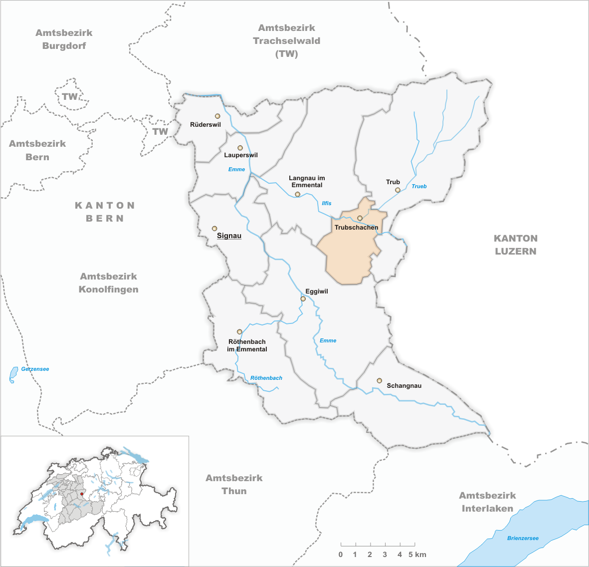 Municipality Trubschachen